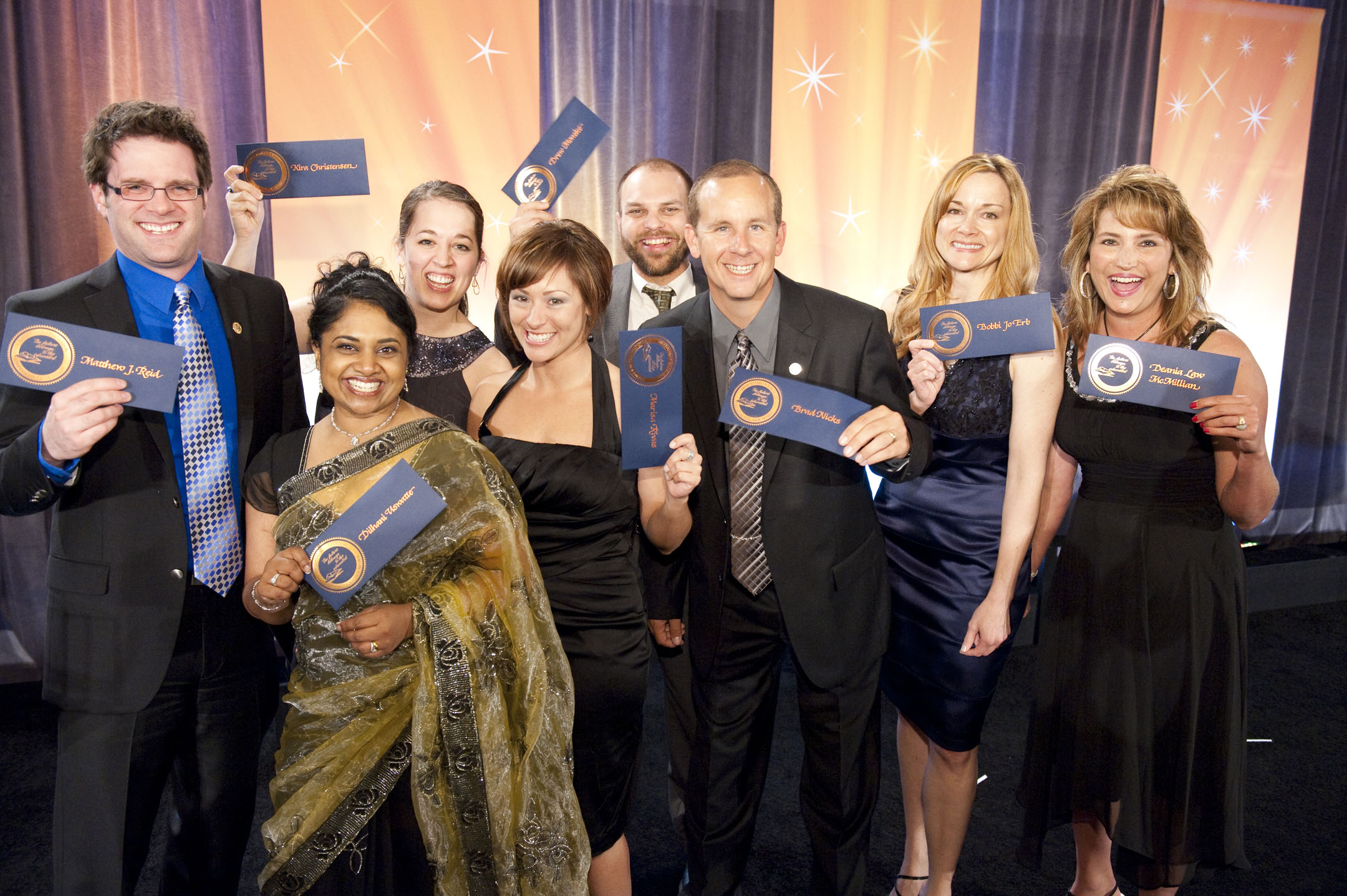 2010 Milken Educators receiving their awards.